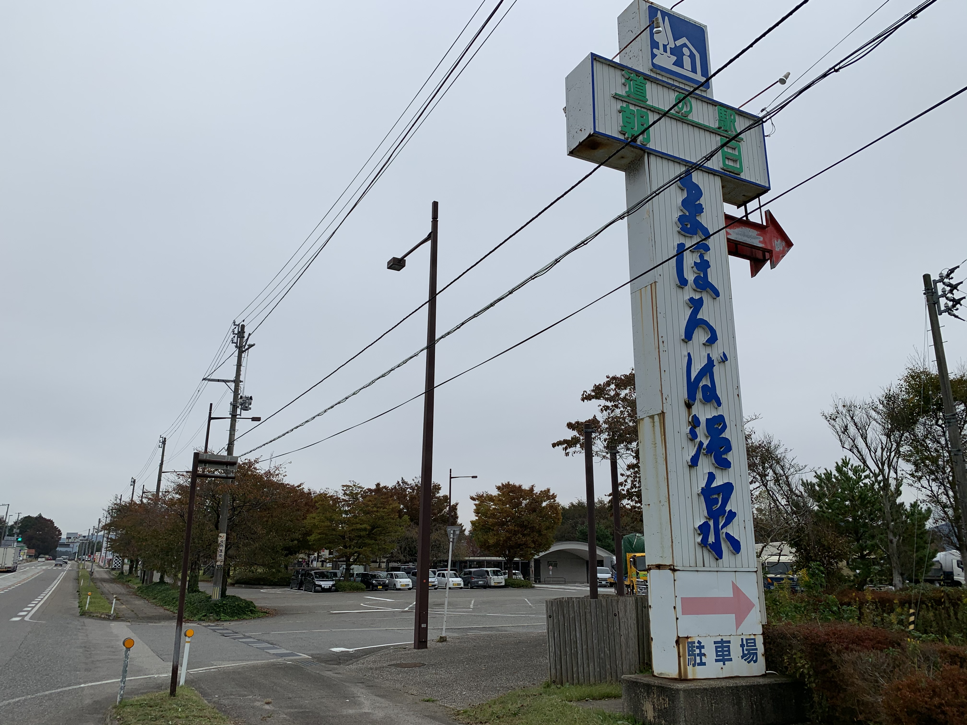 Asahi, Michi no Eki (Roadside Station), Niigata, Japan. Took photo in October 2019.